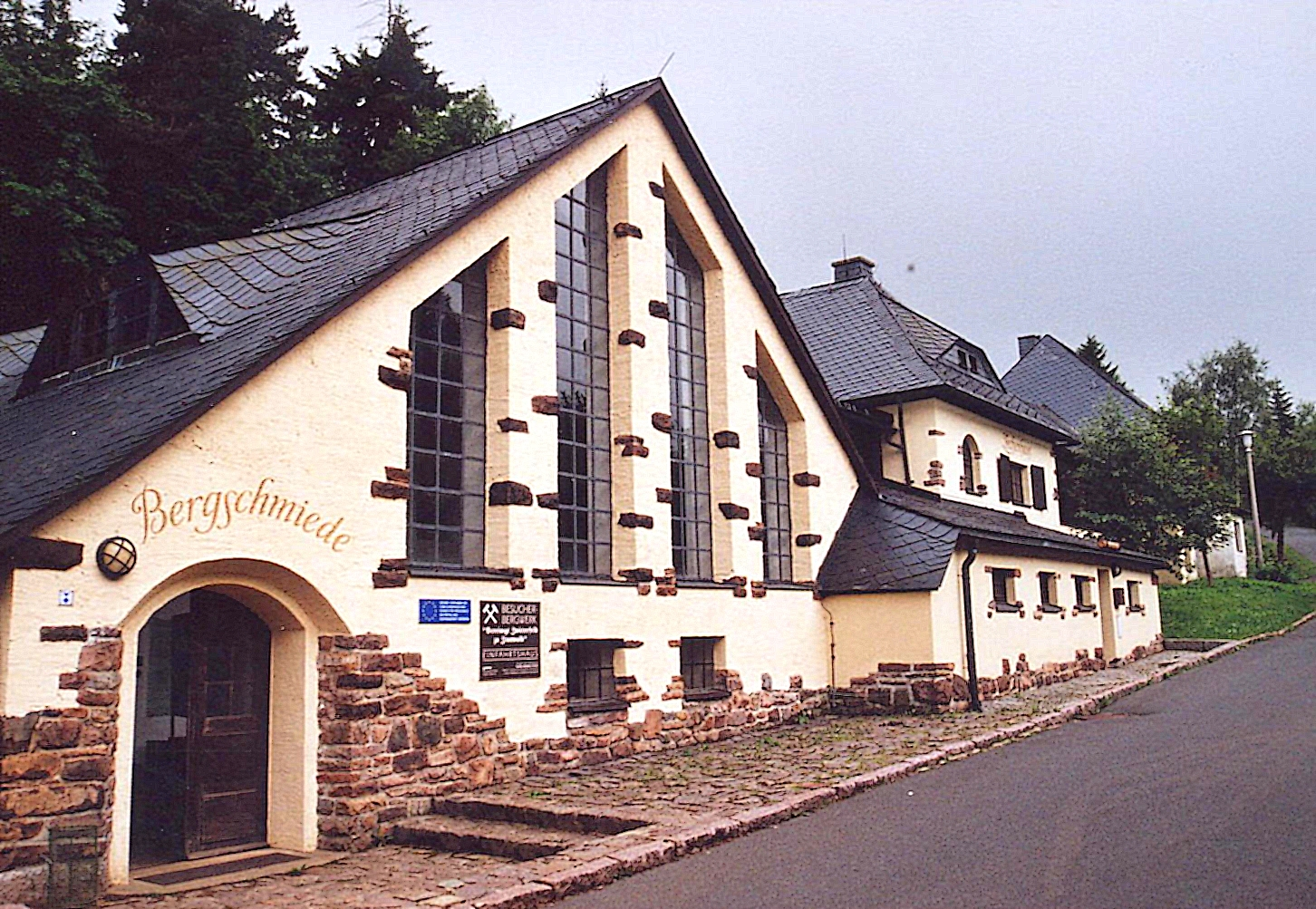 Zinnwald-Georgenfeld: tin mining musem Vereinigt Zwitterfeld zu Zinnwald.